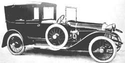 An Elizalde Tipo 20 (1914)